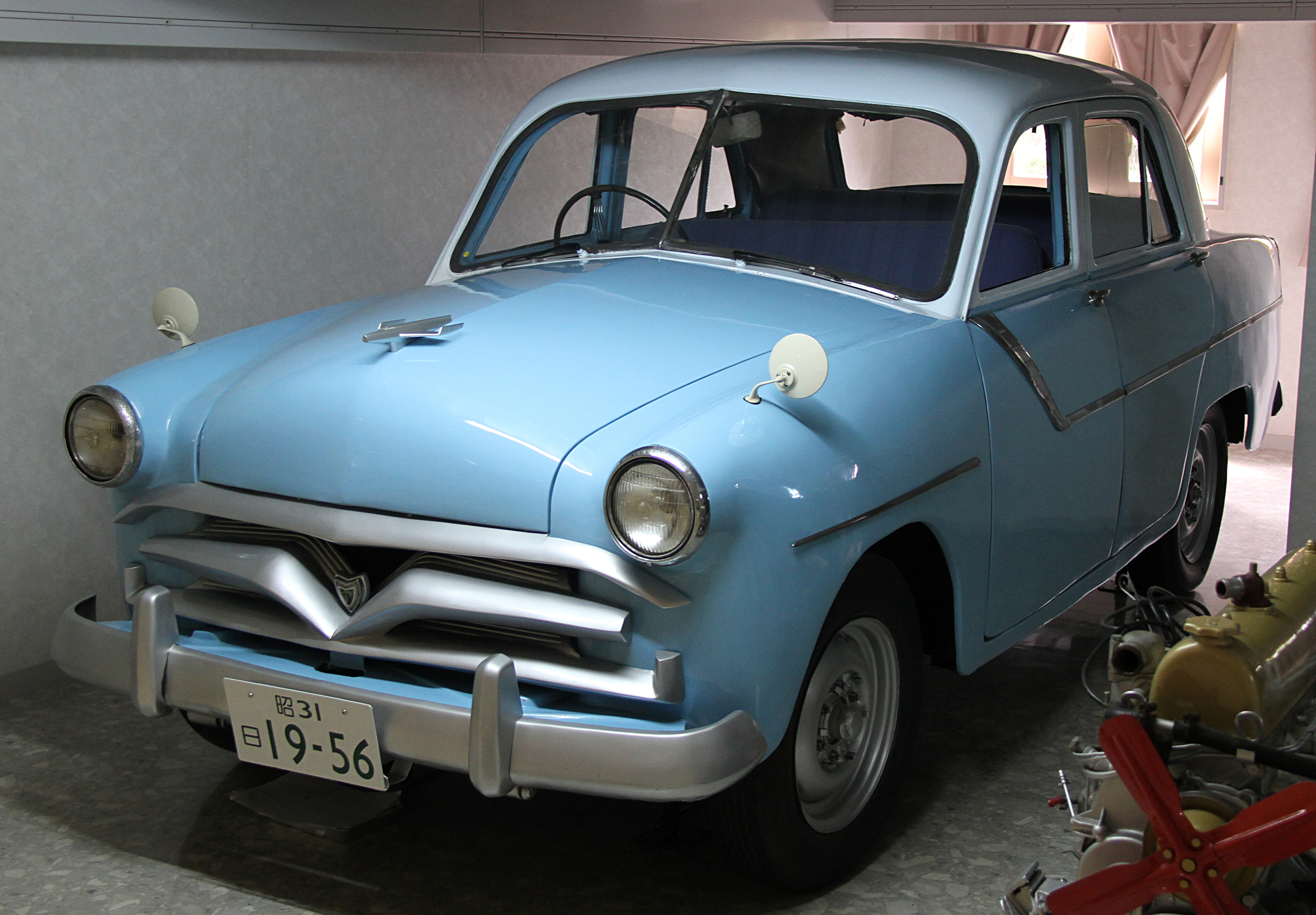 Prince Sedan